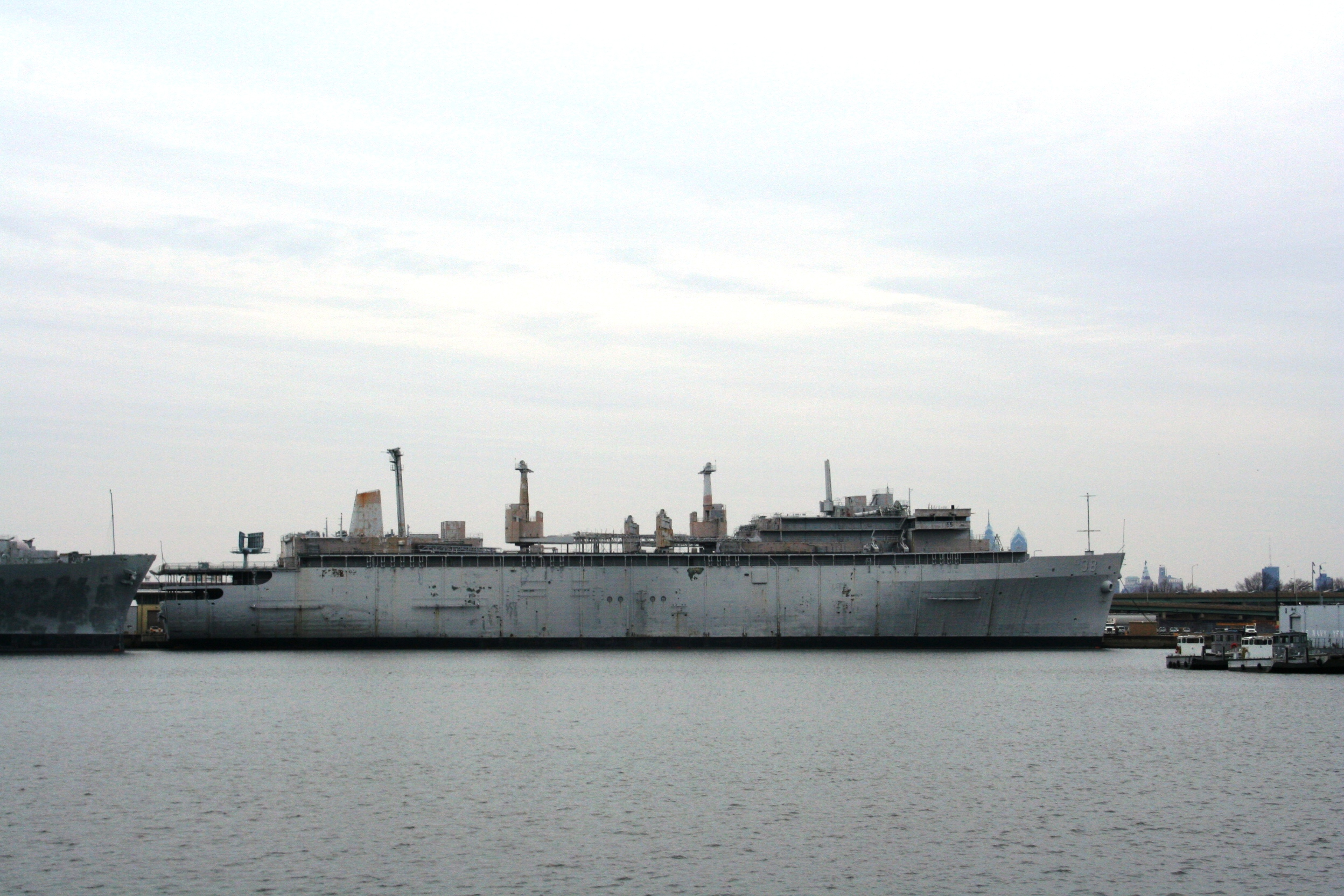 The decommissioned U.S. Navy destroyer tender USS Puget Sound (AD-38) laid up at the Philadelphia Naval Inactive Ship Maintenance Facility, Pennsylvania (USA), in January 2008.